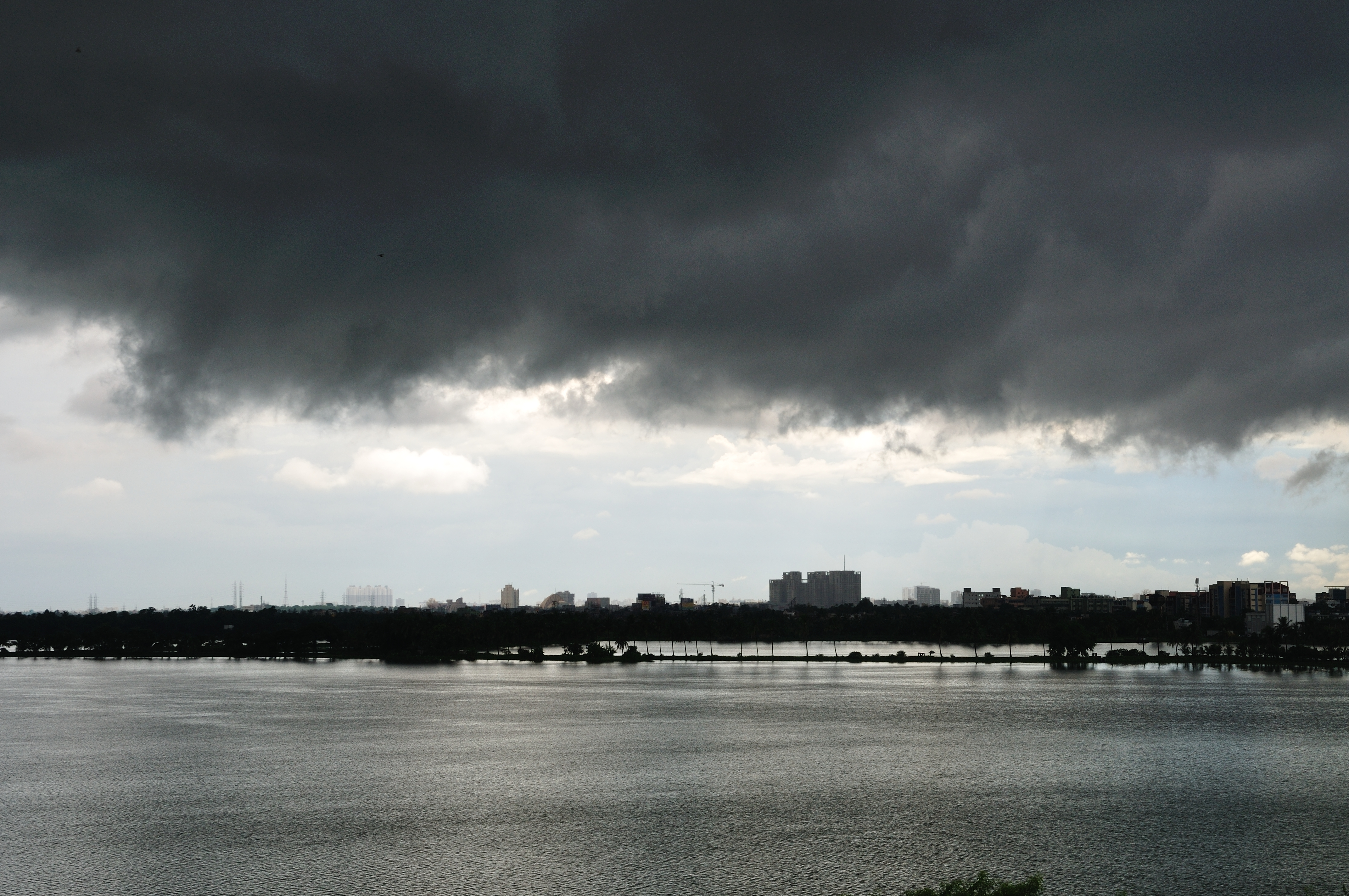 Monsoon clouds over the Nalban lake which lead heavy rain at Kolkata. This media file is uploaded with India loves Wikipedia event.